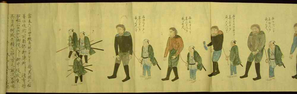 Source: Waseda University Library